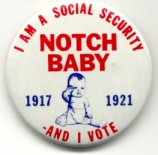 U.S. government image file of "Notch Baby" button